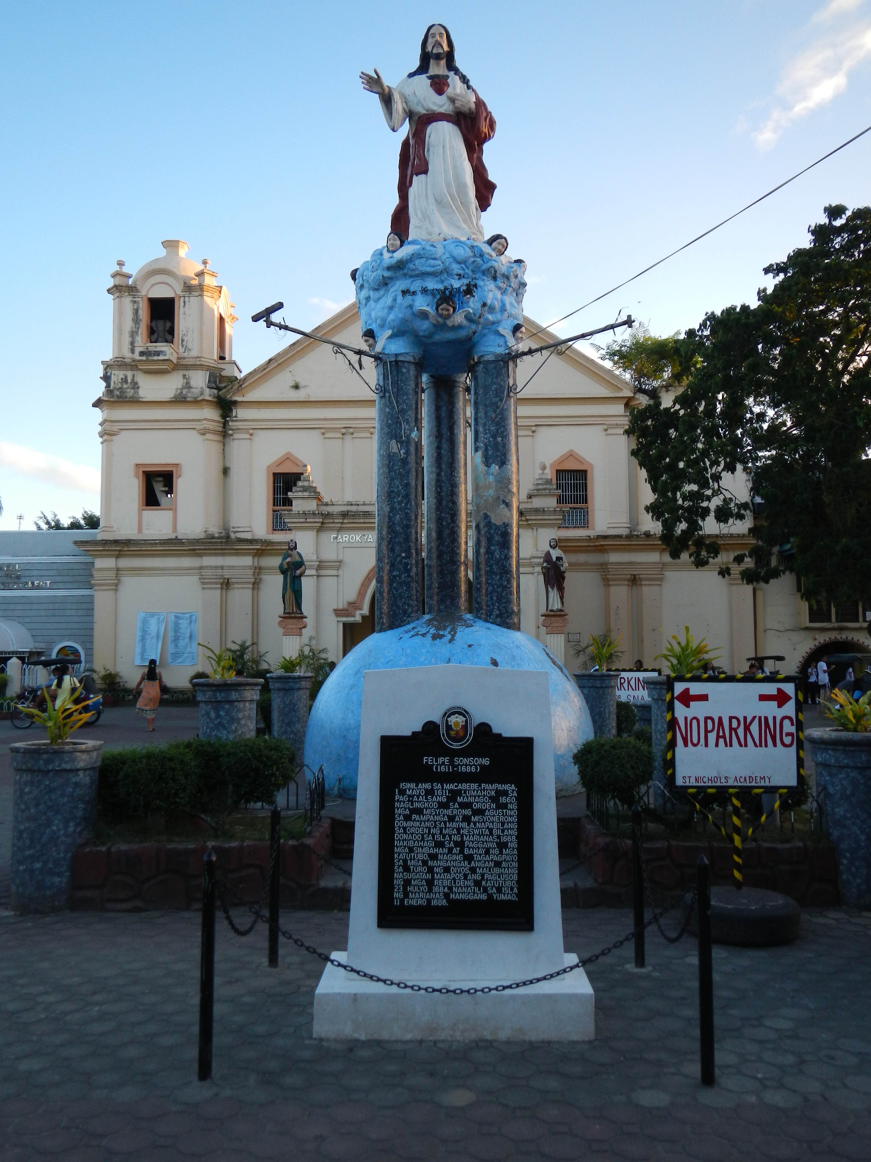 Felipe Songsong (1611-1686)[1]